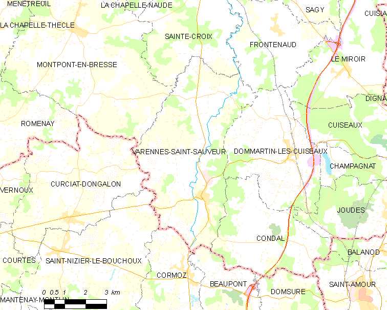 Map of French municipality